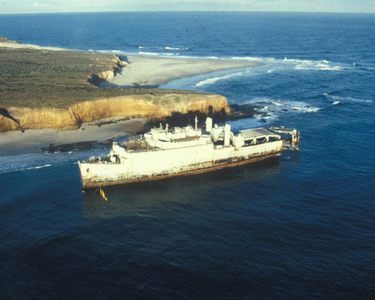 Foul weather and submerged rock and shoals had led to a large number of shipwrecks around San Miguel Island, California (USA), such as the former dock landing ship USS Tortuga (LSD-26) in 1987 near Cardwell Point. The ship was eventually towed out to sea and sunk.